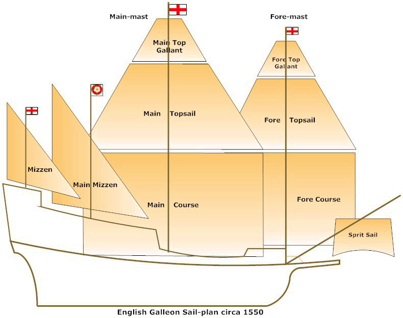 Photo of self-made drawing of sail-plan of English galleon